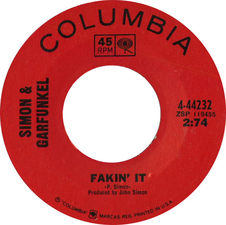 Side-A label of the US single release of "Fakin' It" (4-44232) by Simon & Garfunkel